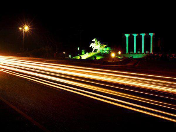 it is main entrance to the Kharian cantt. Heavy military police guard it all the time for security.